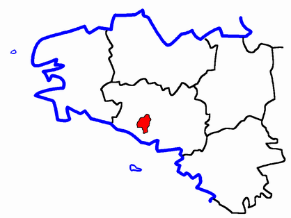 Description: Map for localisazion of cantons of Bretagne region in France Source: made by Hervé Tigier in april 2005 from another large map (published in 1990)